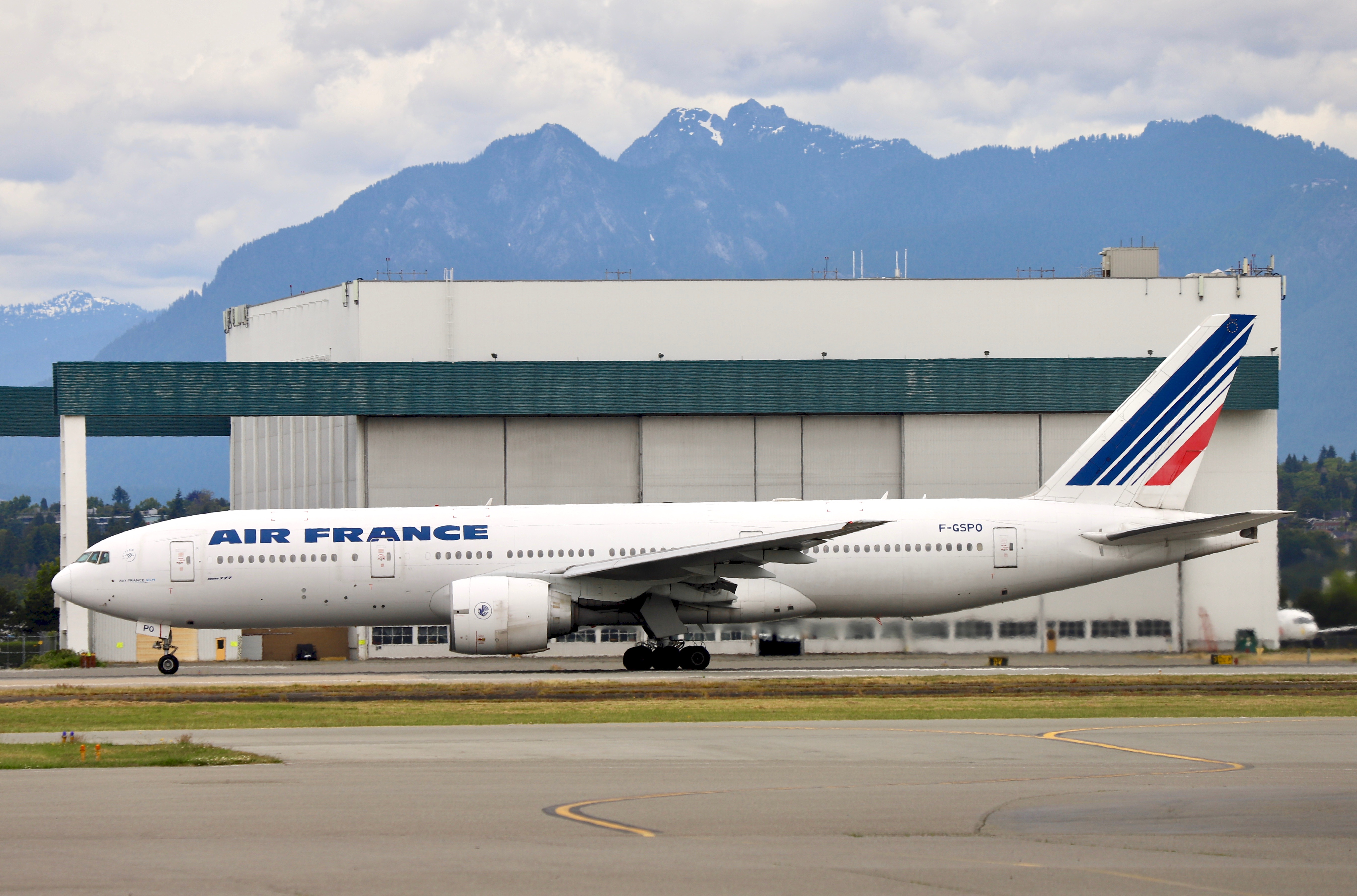 Air France 777-200ER taking off from Vancouver International Airport.